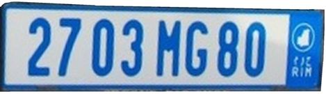 Mauritanian licence plate detailed